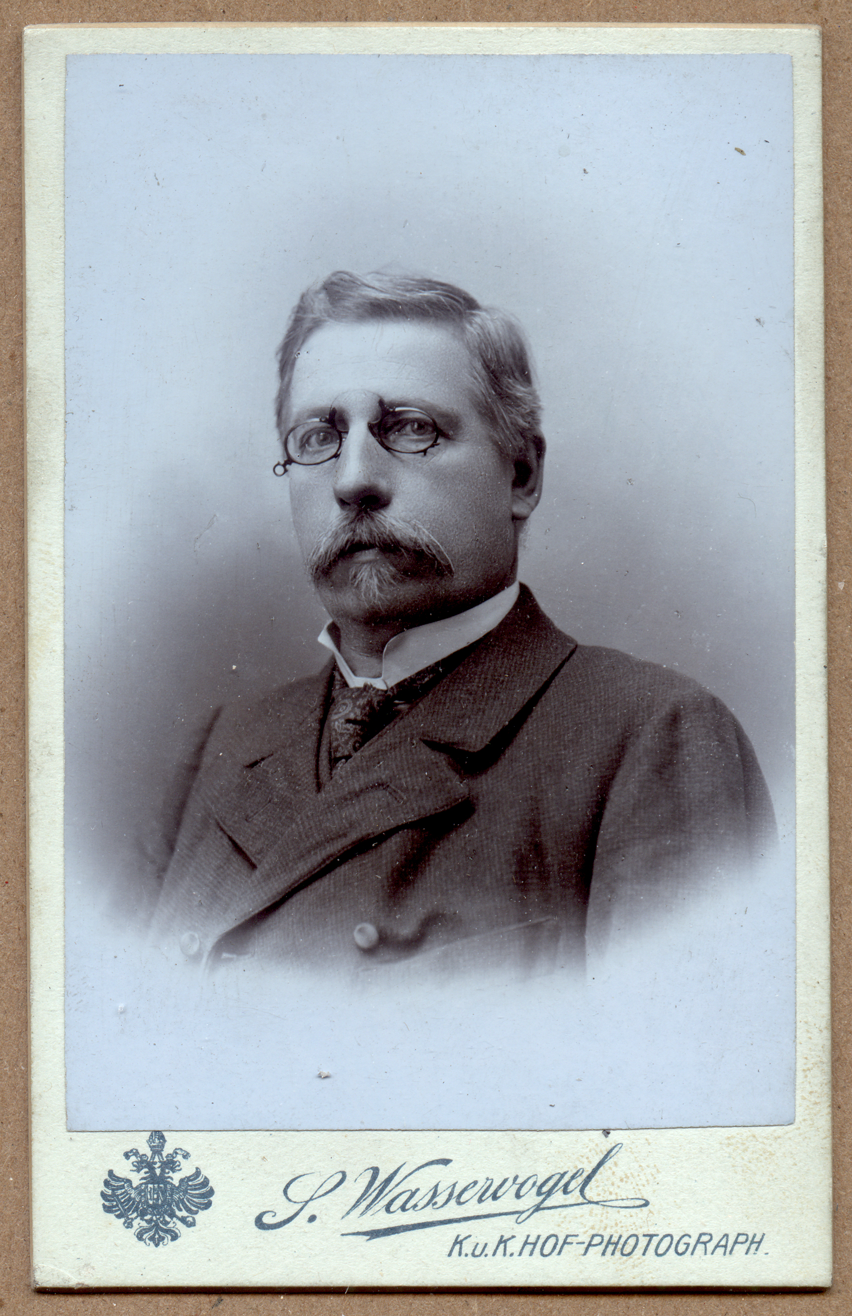 Edmund Reitter